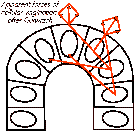 Putative biofield forces - diagram